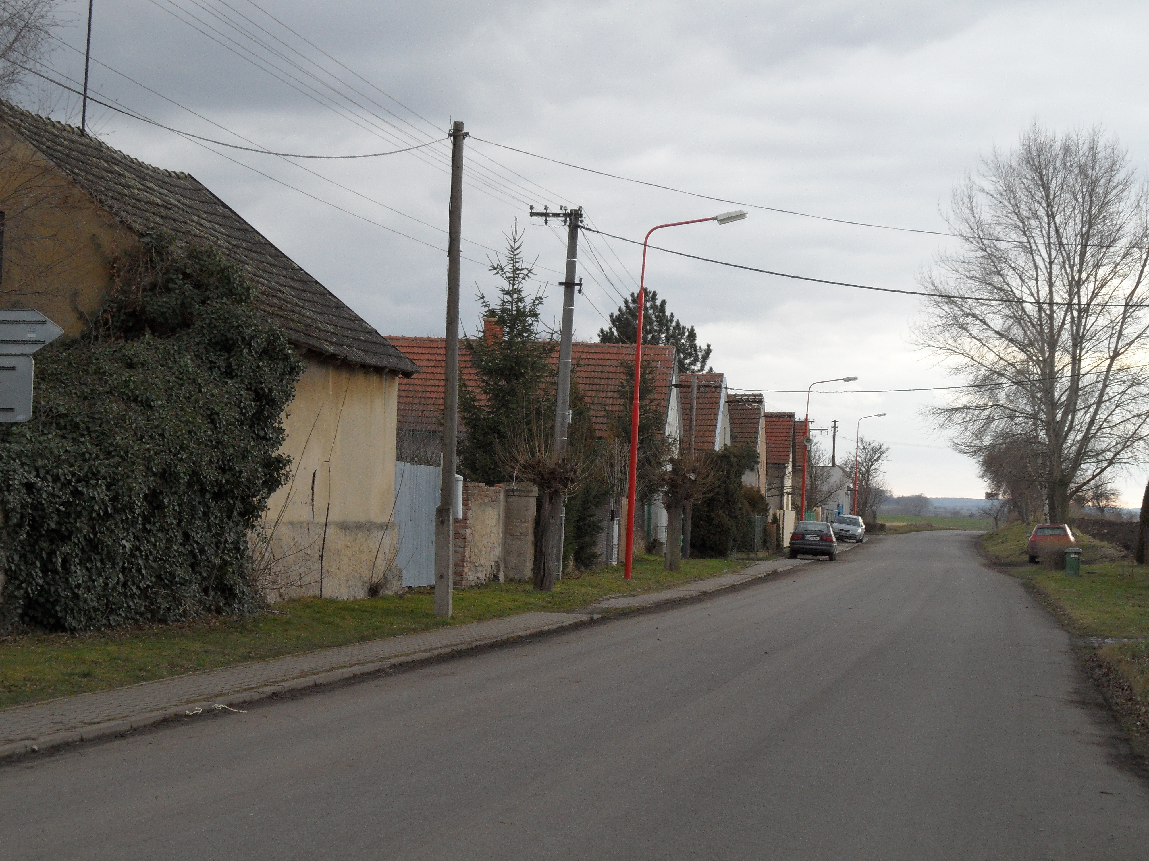 Břežany I D. Houses along Road toward Poboří, Kolín District, the Czech Republic.